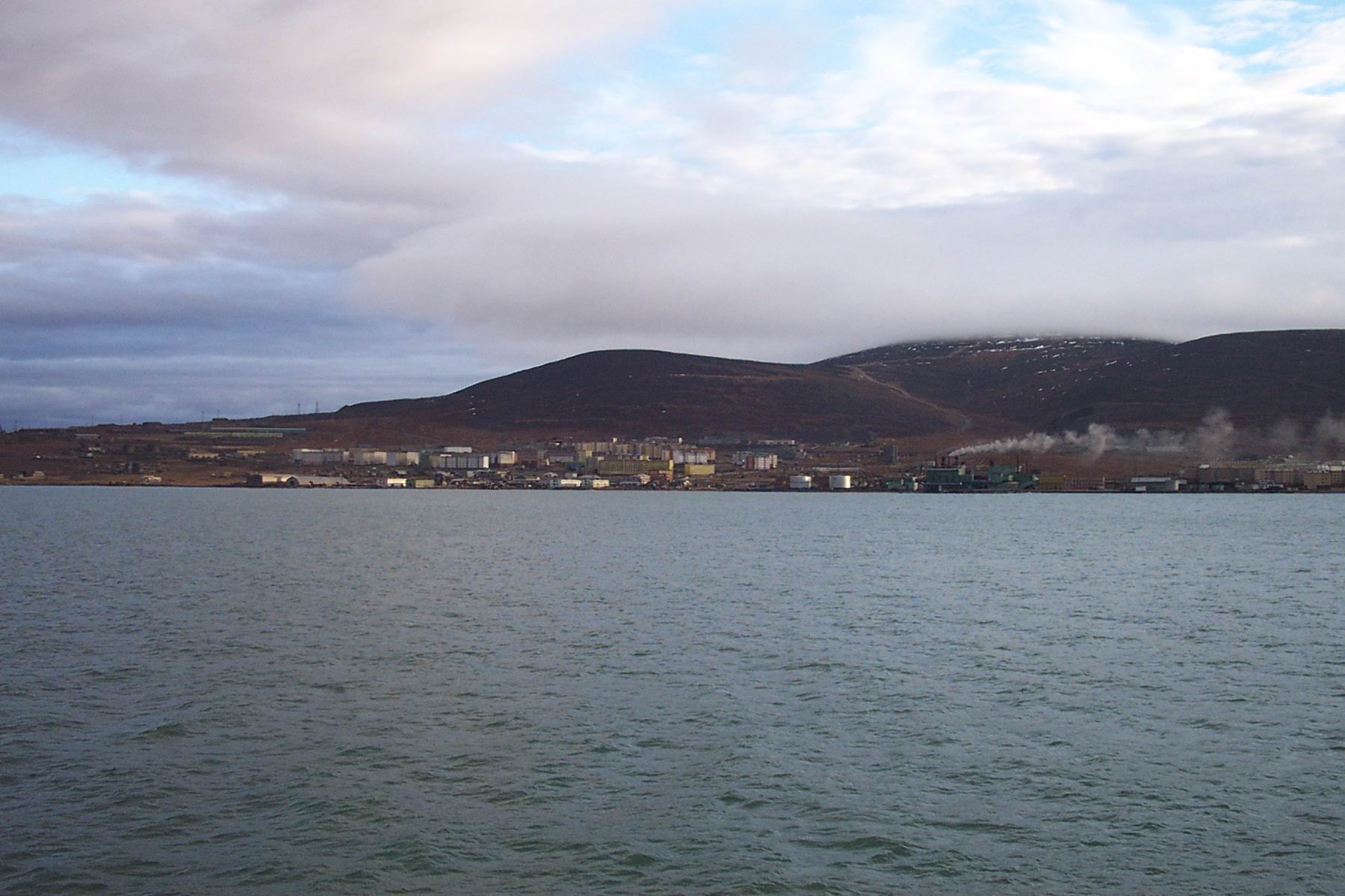 Pevek, Chukotka